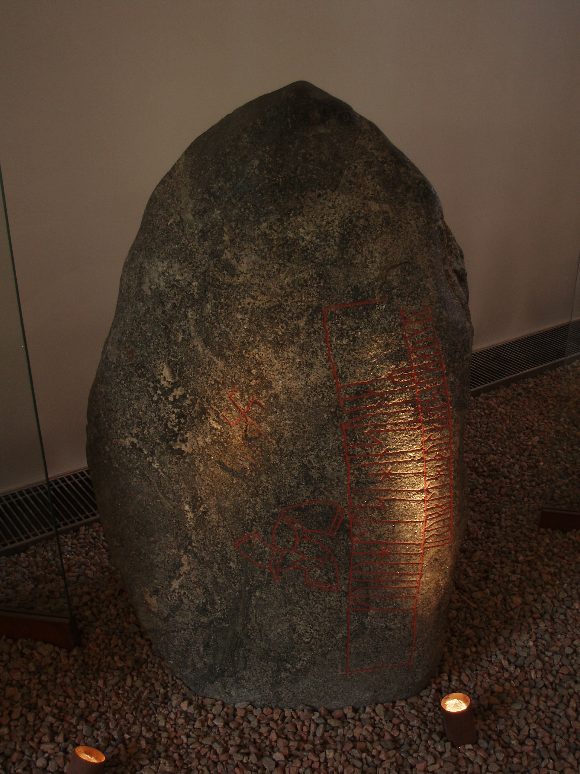 The Snoldelev runestone, now housed in the National Museum of Copenhagen.